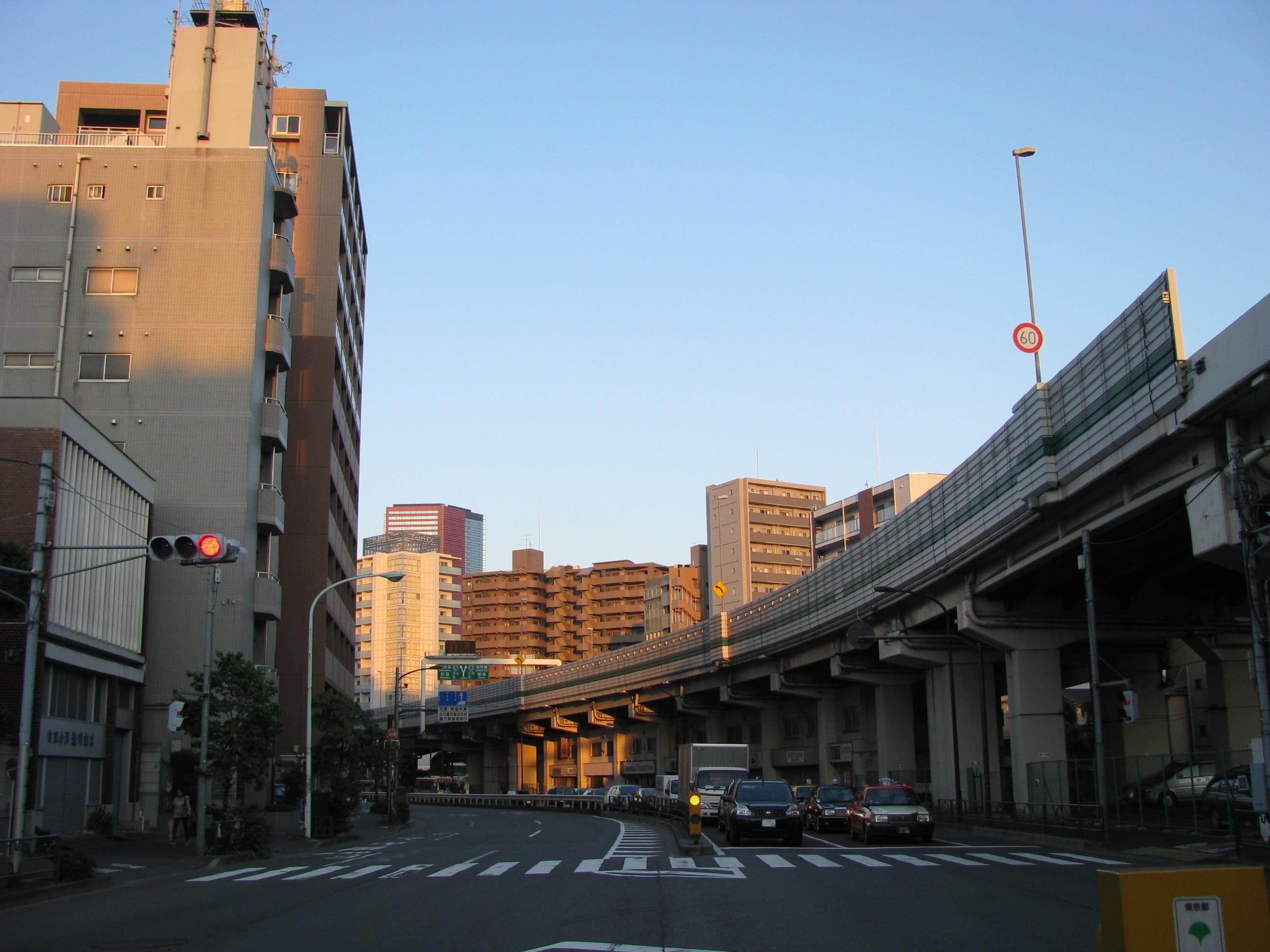 The Tokyo Prefectural Route 416. This location is Minami-Azabu in Minato, Tokyo, Japan.